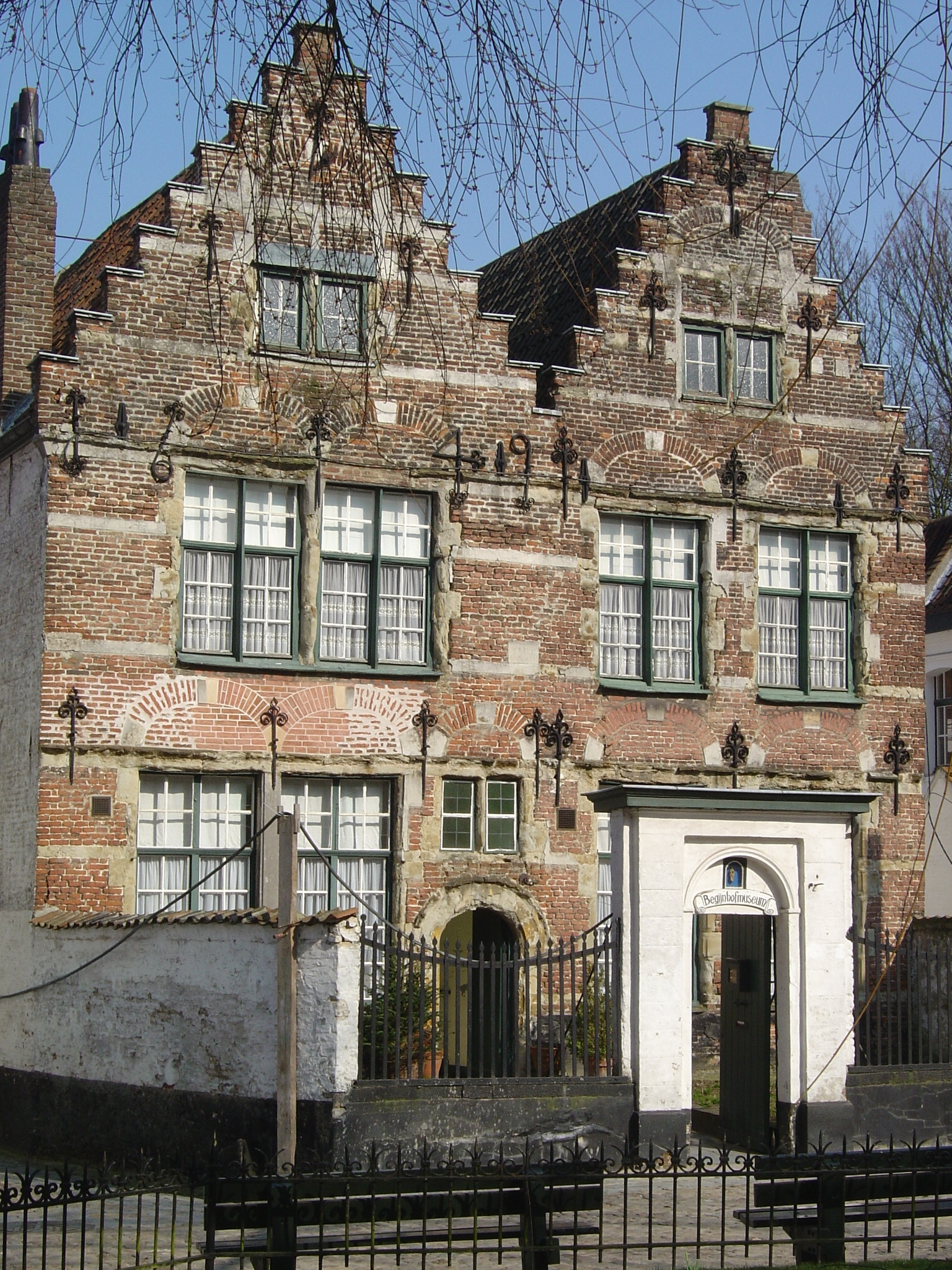 I took this picture in march 2006 Saint Elisabeth Beguinage of Kortrijk (Belgium): former house of the mother superior, now the Beguinage museum Begijnhof Sint-Elisabeth van Kortrijk (België) : vroeger huis van de Grootjuffrouw, nu Begijnhofmuseum Béguinage Sainte-Elisabeth de Courtrai, (Belgique), ancienne maison de la supérieure, actuellement musée du Béguinage